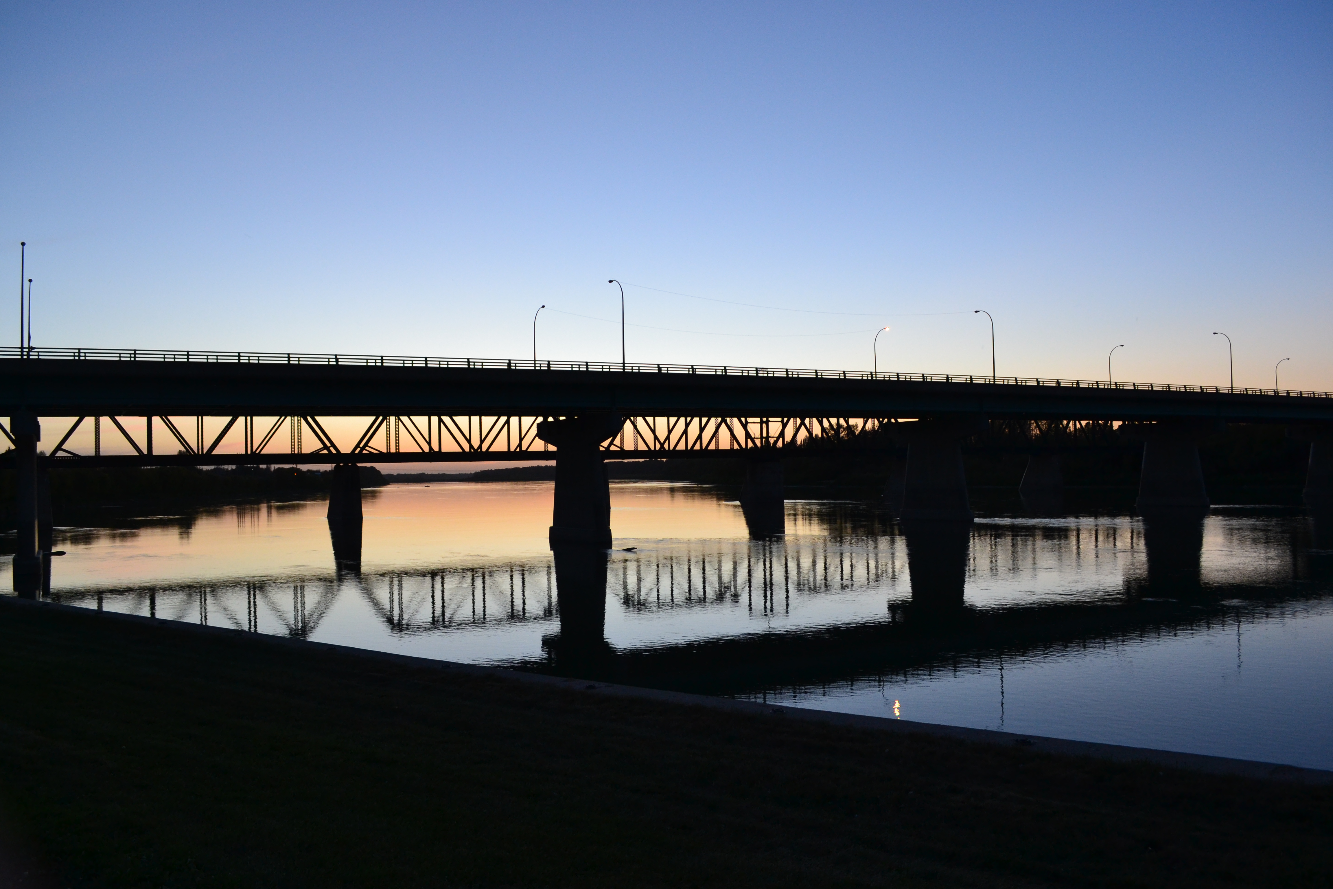 Prince Albert and District is rich in recreation and leisure opportunities. Our abundant city parks include Prime Ministers Park, Pehonan Parkway, and the beautiful 1500 lakes that make up Prince Albert National Park. During the winter months, the City of Prince Albert and District come alive with fun-filled activities for the entire family! Cross-country skiing, snowboarding, snowshoeing, and winter hiking are some of the activities you can experience when you visit Little Red River Park, Prince Albert's playground areas, or any of our Lakeland areas. Fall and winter give way to spring and summer.... Prince Albert's farmers market, downtown street fair, retail shopping, exhibitions, rodeos, and the best golfing around - we have it all! With endless adventure possibilities within an hour from Prince Albert, there isn't another City and District like us!